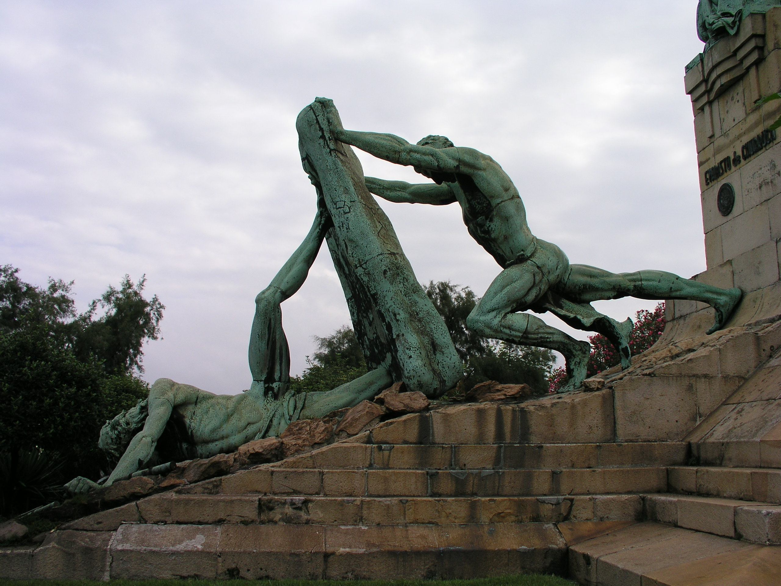 Monument to Evaristo Churruca, near the Puente Colgante, 1930s. The monument is called "The struggle of man against the sea", due to the fact that Churruca improved the safety to ships of the Ría de Bilbao. The monument depicts a man pushing a slab of stone over the God Neptune, whose attributes, Trident and Crown, lay broken on the ground.